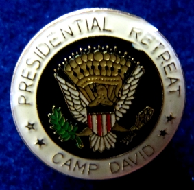 Richard M. Nixon's cufflinks, Camp David Edition